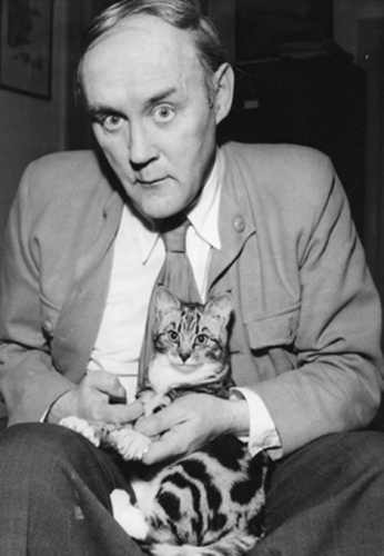 Swedish physician and scientist Gunnar Dahlberg.